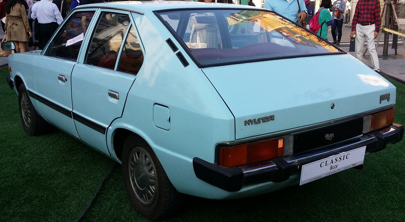 Hyundai Pony